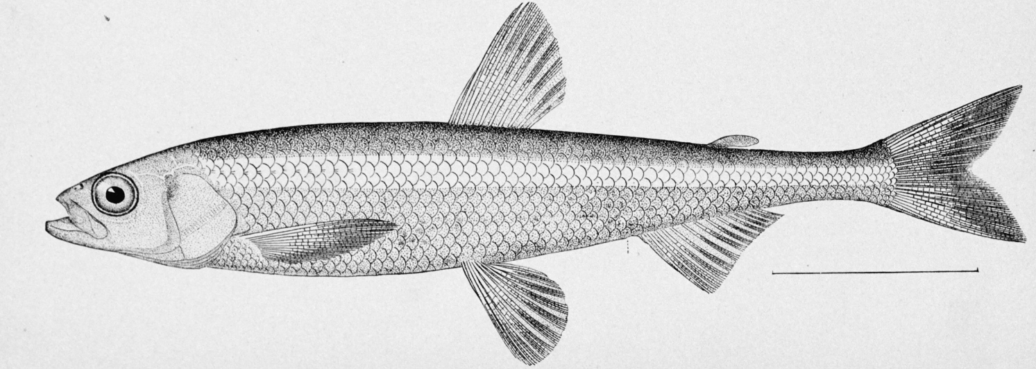 Illustrations of Hypomesus pretiosus (surf smelt) and Hypomesus olidus (pond smelt), labelled as California Surf Smelt and Alaska Surf Smelt, respectively.